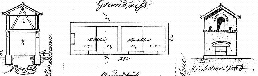 New sty with dove-house 1869, Dorfstr. 57. The village Gömnigk is a part of the town Brück in the district Potsdam Mittelmark, state Brandenburg, Germany, at the border to the natural preserve Naturpark Hoher Fläming.